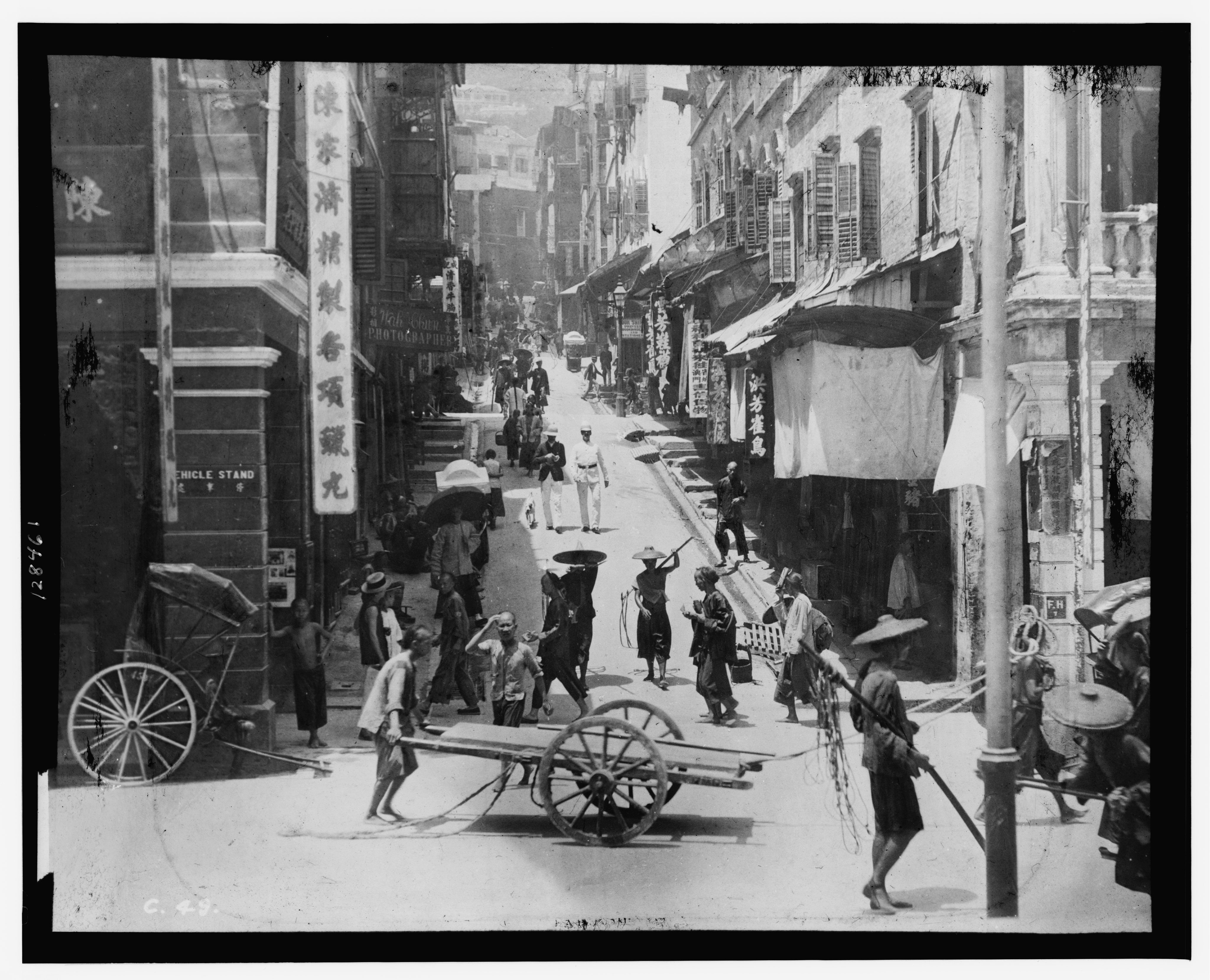 Title: Peking [i.e. Hong Kong] - street scene Abstract: Photo probably shows Hong Kong, based on sign for Wah Chun's photo studio and the number of signs in English. (Source: Terry Bennett, 2012) Physical description: 1 slide : lantern, hand colored ; 3.25 x 4 in. Notes: Forms part of: Jackson, William Henry, 1843-1942. World's Transportation Commission photograph collection (Library of Congress).; Gift; William P. Meeker; 1971.